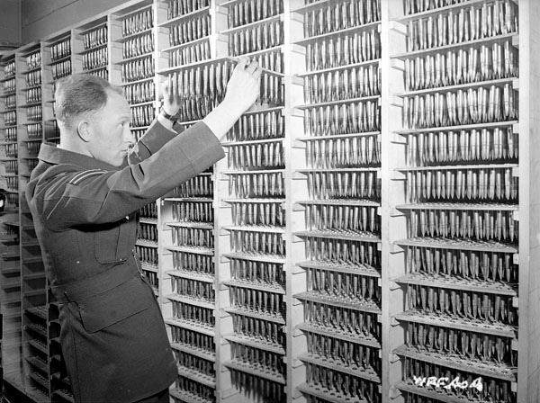 Unidentified corporal checking ammunition at RCAF Jarvis